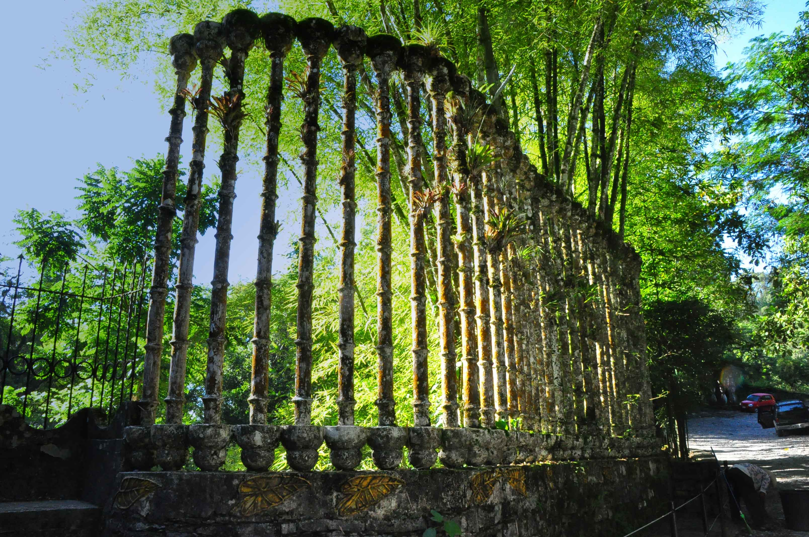 Classic Style is rendered in the form of Bamboo with a twist.